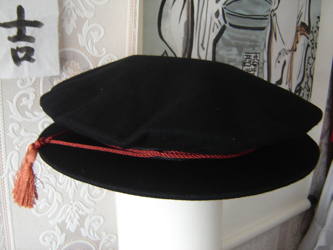 A black Tudor bonnet with a claret cord and tassel from Ede and Ravenscroft, UK.